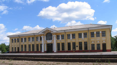 Trainstation for normal and narrow gauge railway in Gulbene, Latvia